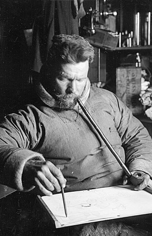 Acthon Friis photographed during the Denmark Expedition to northeast Greenland in 1906-08.